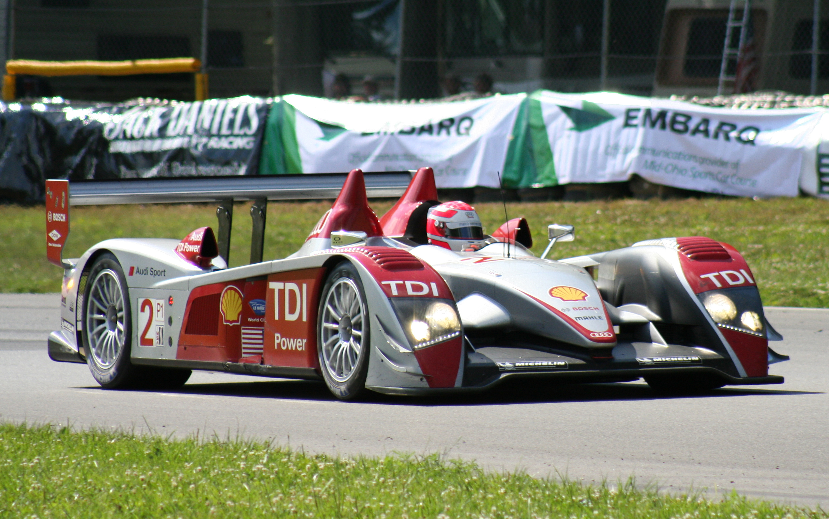 An Audi R10 TDI (driven by Marco Werner)